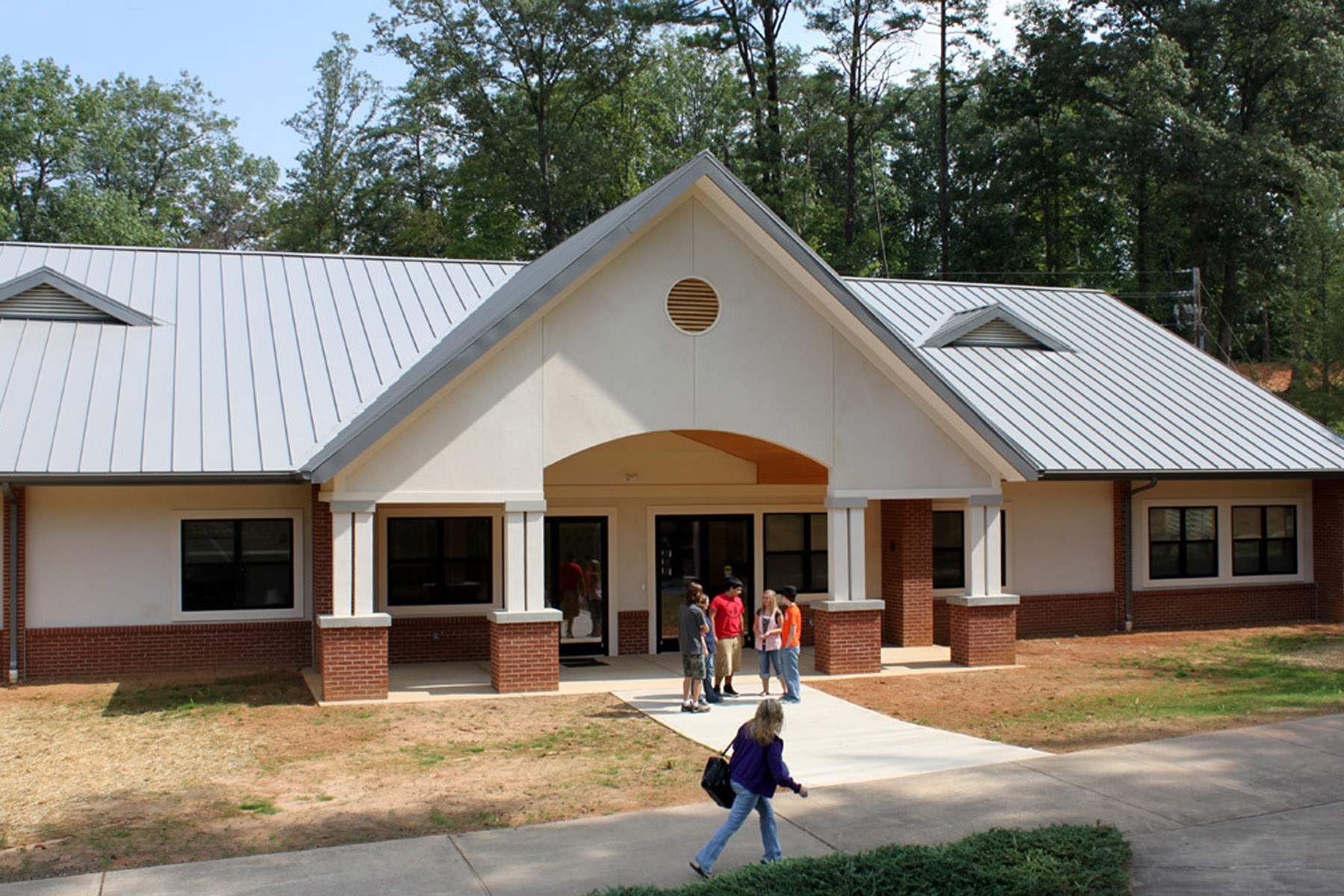 The new eight-classroom modern Jackson County Early College building on the Southwestern Community College Campus in Webster, NC which was opened to students in the fall of 2010, and relieved pressure from the College Buildings the school formerly used. It cost a little over $700,000 to build.